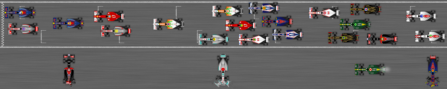 Race result of 2011 Singapore Grand Prix in Singapore